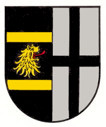 Coat of arms of Battweiler